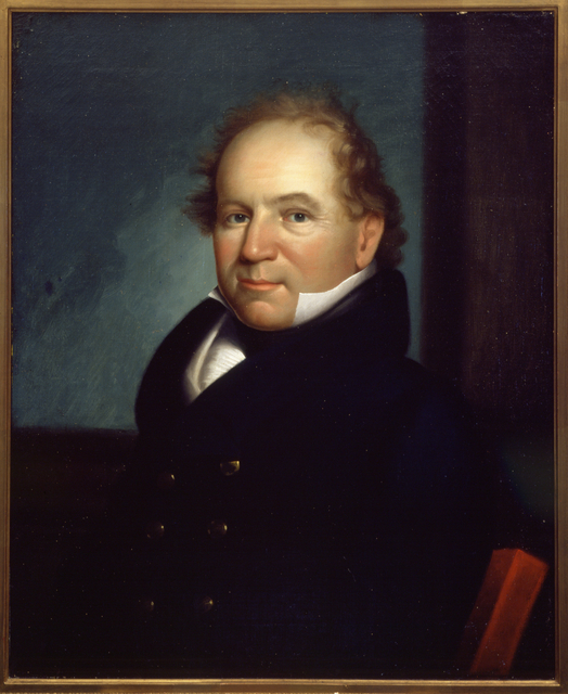 Oil on canvas painting of Colonel Josiah Snelling, c.1818. Artist unknown. Snelling served as commanding officer of Fort St. Anthony (later renamed Fort Snelling in his honor) from 1820-1827.